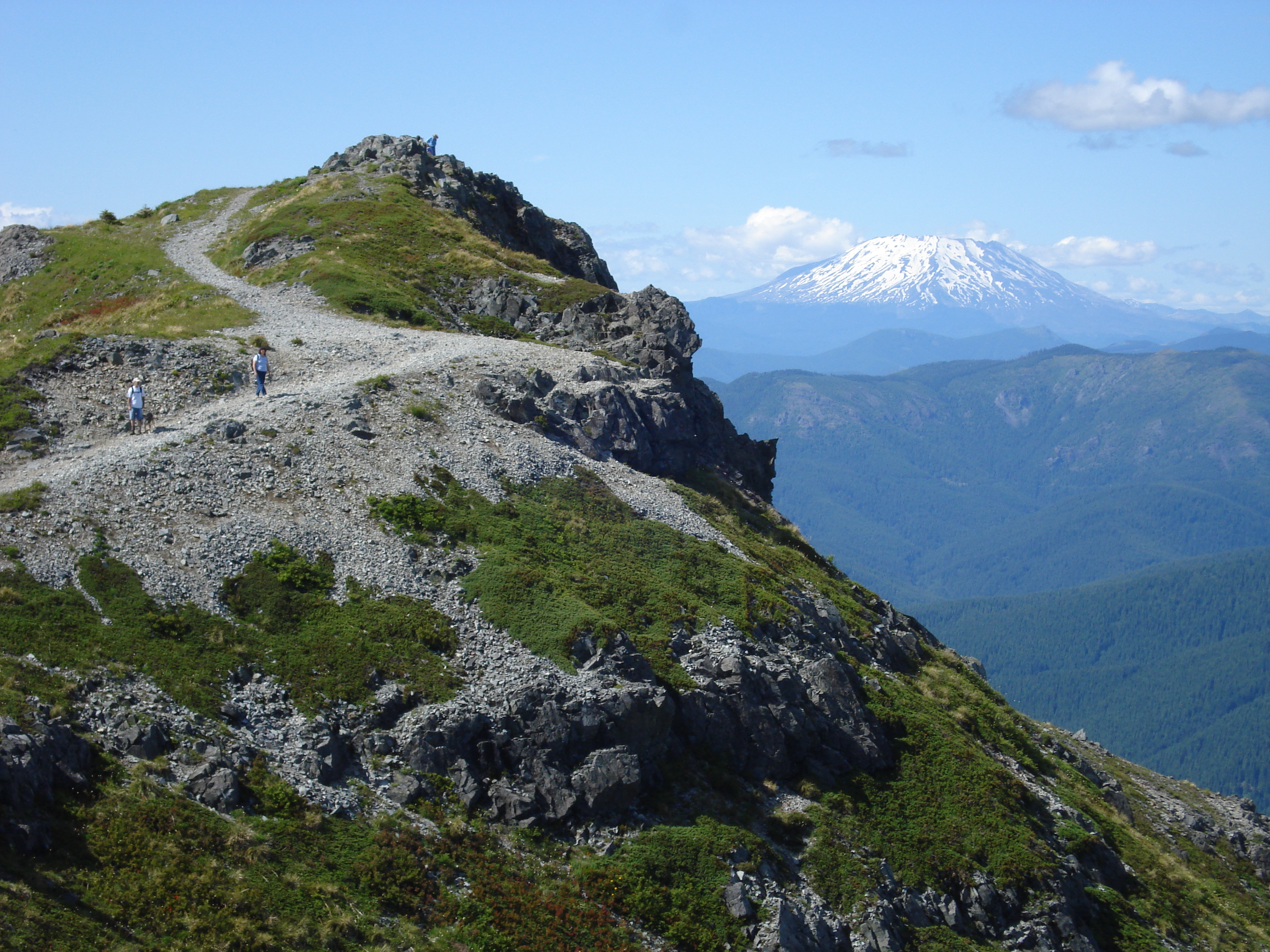 Trail to the summit of Silver Star Mountain, southern Washington, USA. With view of Mt. St. Helens in background